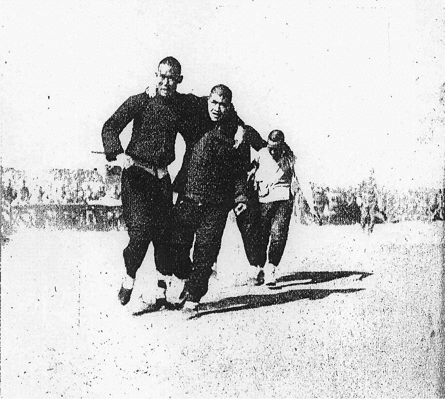 Three-legged race/Japan-China friendship sports festival (Linfen, Shanxi Province, China)